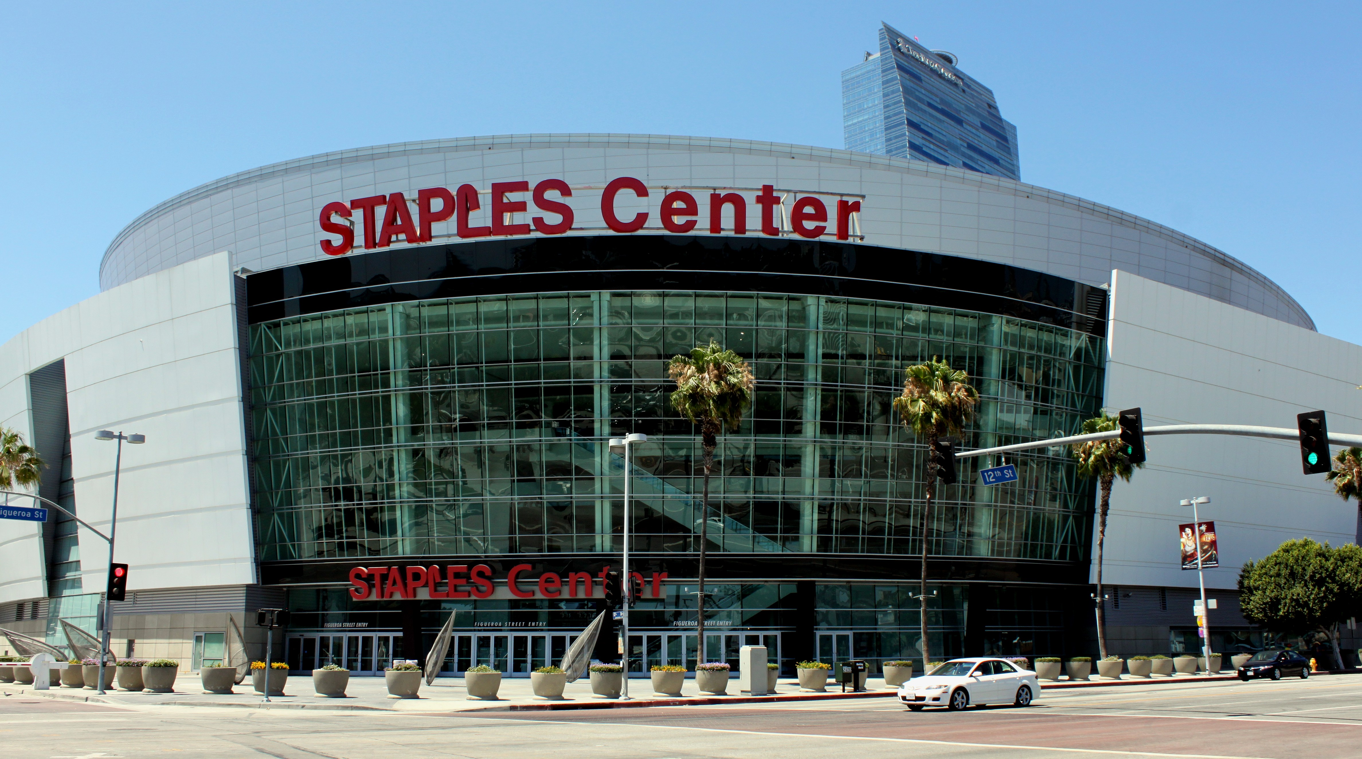 Home of the NHL Stanley Cup Champion LA KINGS also NBA Teams LA Lakers & LA Clippers also WNBA Team LA Sparks